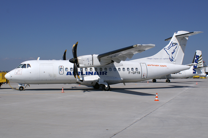 Airlinair ATR 42-500 F-GPYB at Stuttgart Airport